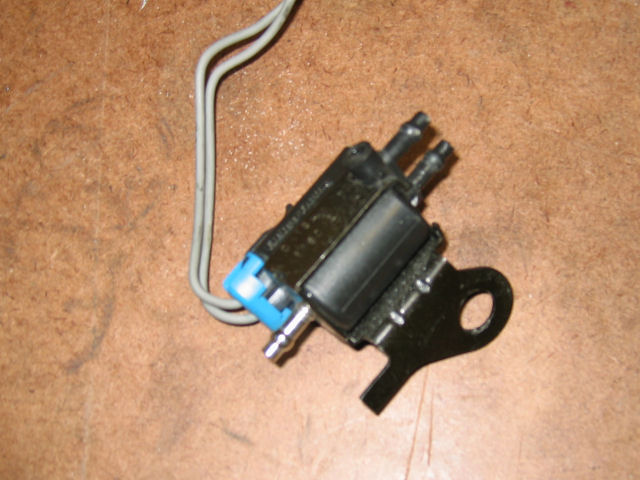 3 port pneumatic solenoid. This is a GM part for the Typhoon/Cyclone.